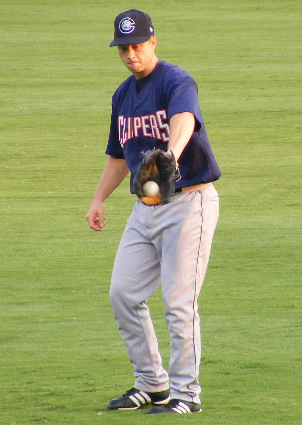 Brent Abernathy of the Columbus Clippers taken at a game in Harbor Park against the Norfolk Tides